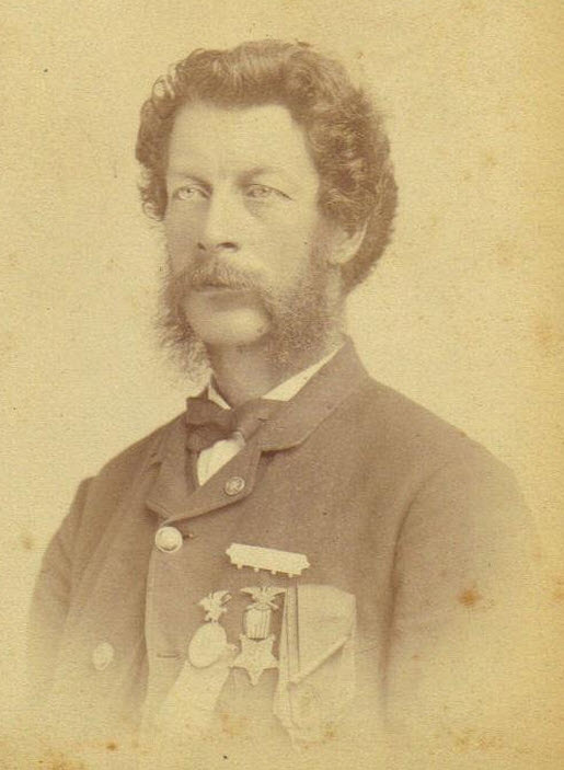 This photograph, taken ~1900, shows John Shanes wearing his Medal of Honor